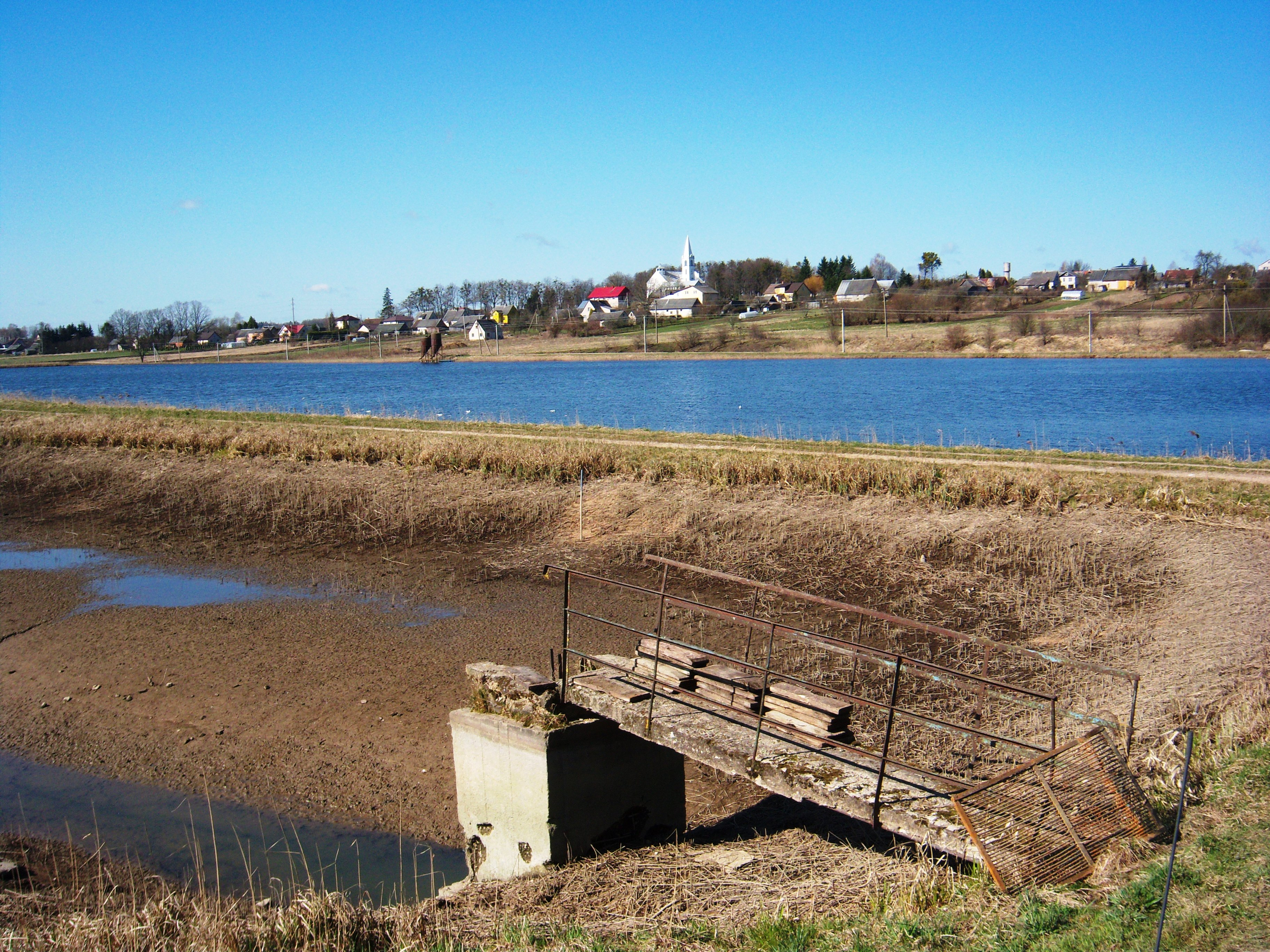 Išlaužas pond, Prienai district, Lithuania